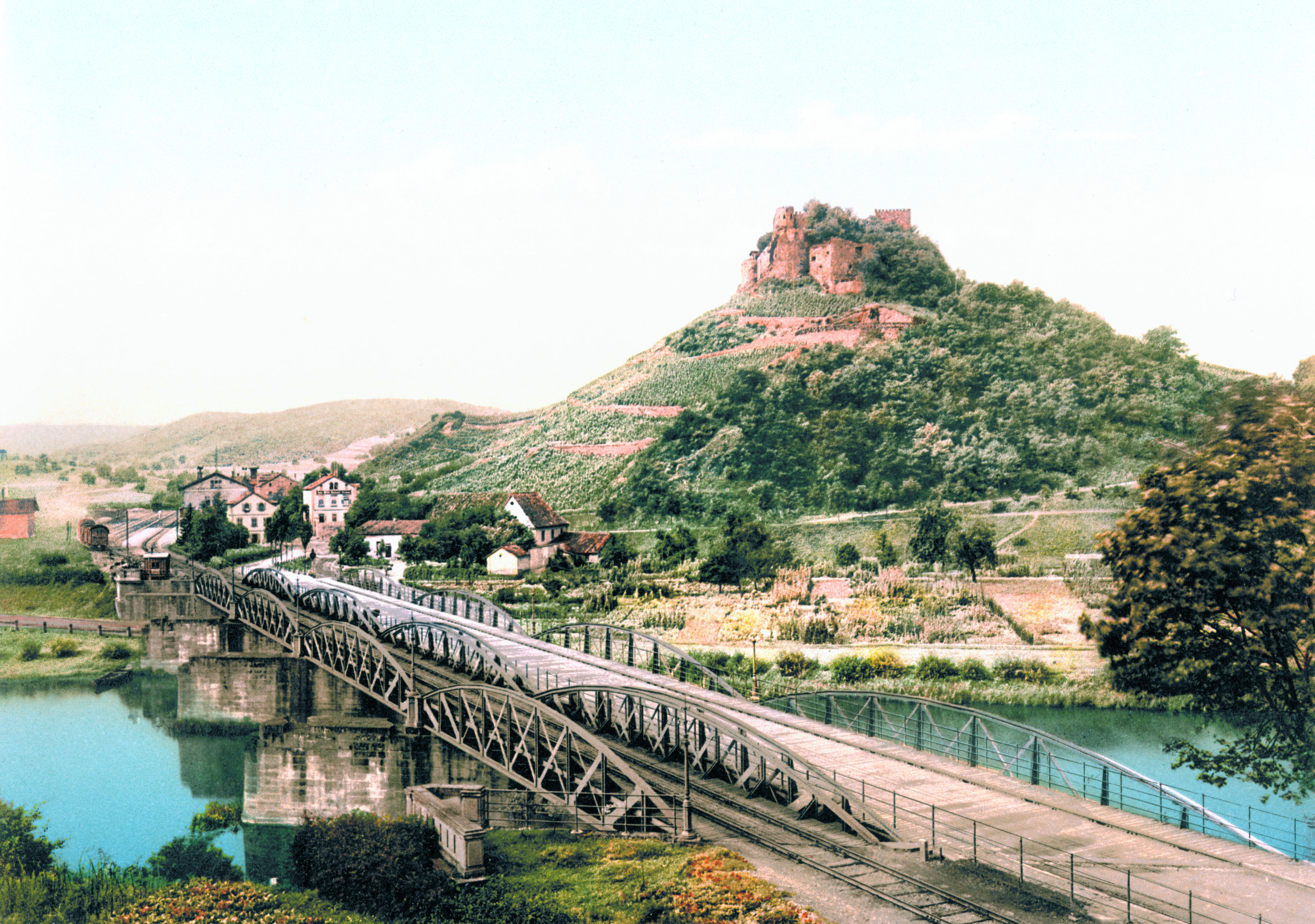 Castle ruine of the Ebernburg - north-eastern aspect